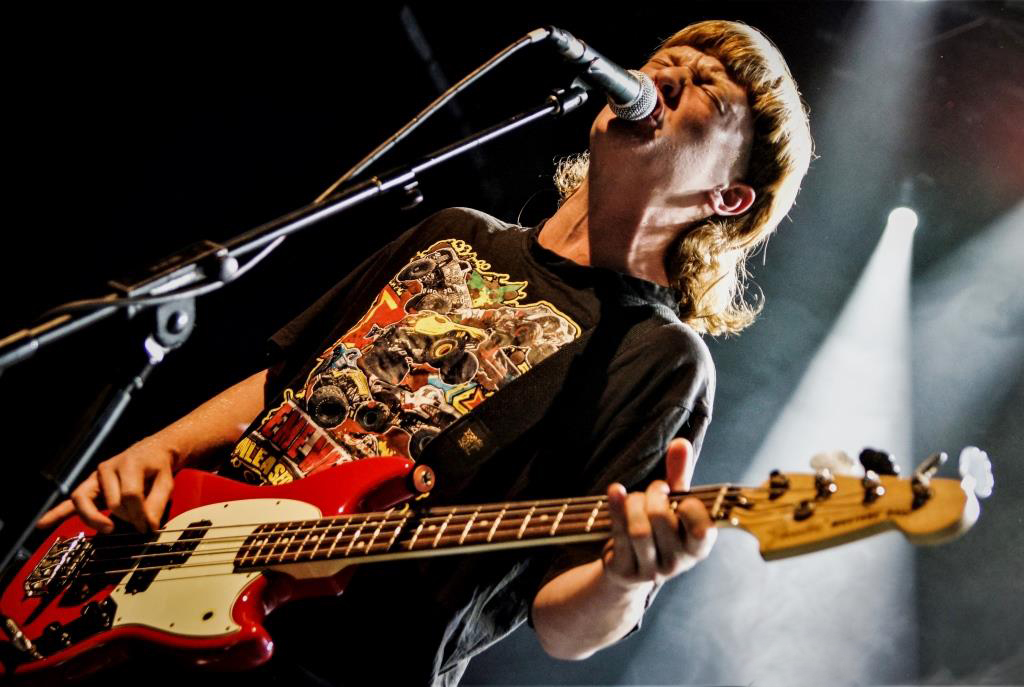 The Chats performing at Academy 2, Manchester, on Monday 22nd October 2018